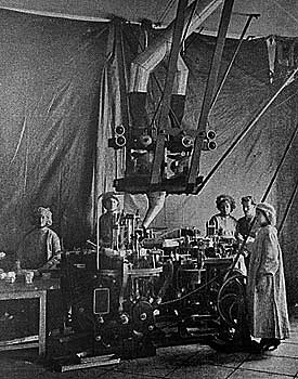 Partnership «B. Vysotsky and Co.».